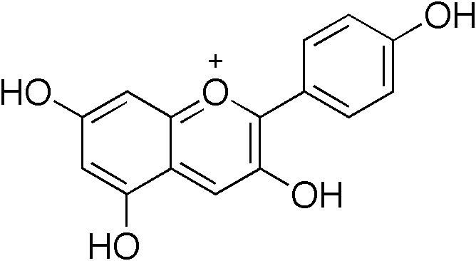 chemical structure of pelargonidin